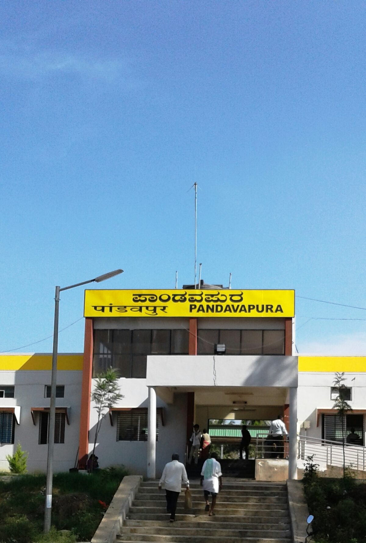 Srirangapatna, Mandya district, Karnataka state, India.